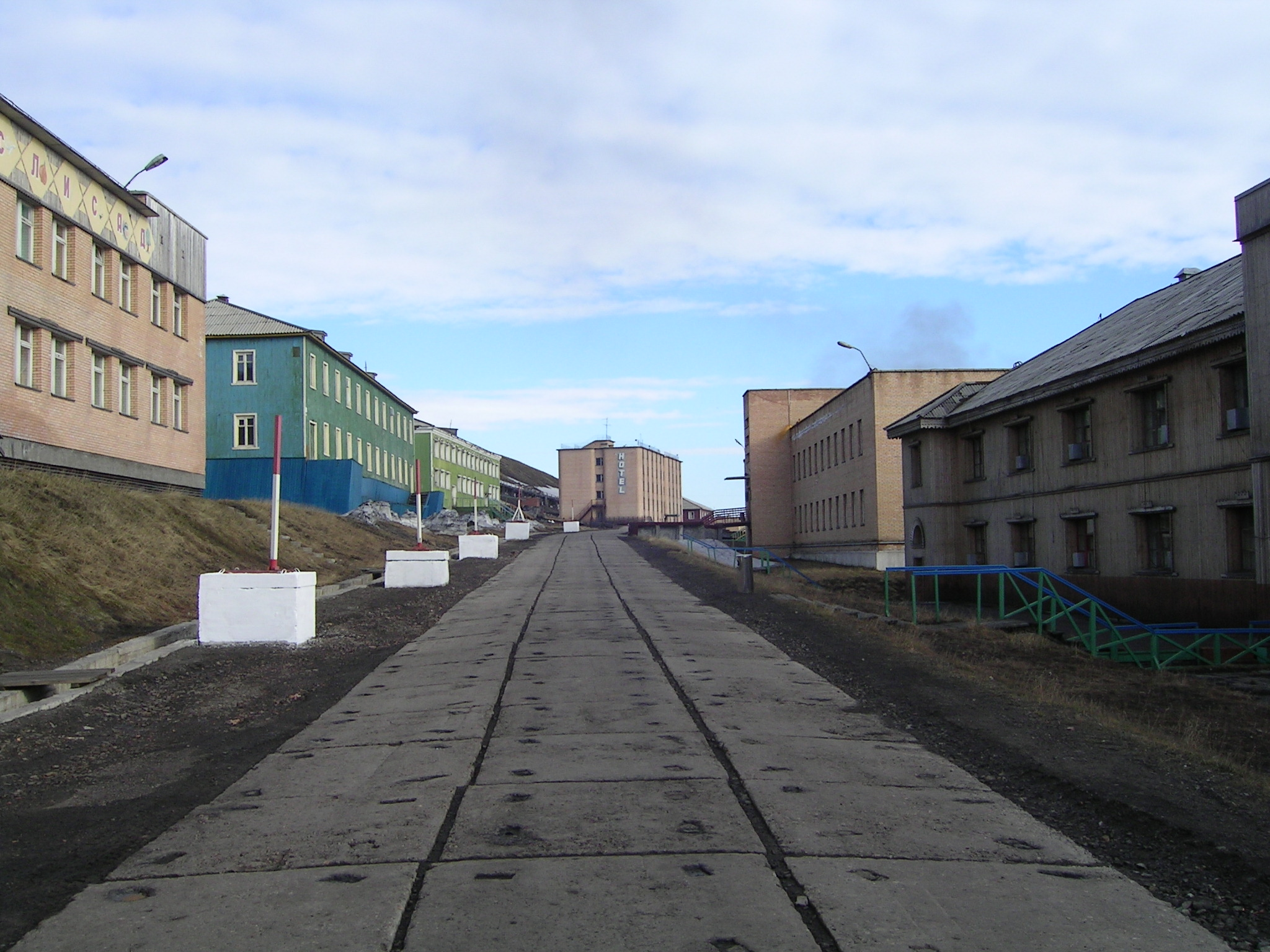 Barentsburg central's street